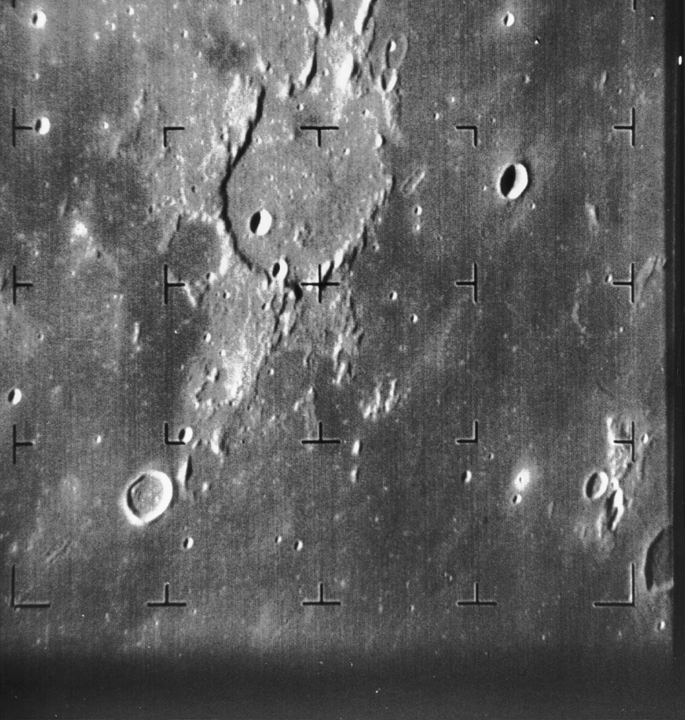 Ranger 7 B-camera image of Guericke crater (11.5 S, 14.1 W, diameter 63 km) taken from a distance of 1335 km. The dark flat floor of Mare Nubium dominates most of the image, which was taken 8.5 minutes before Ranger 7 impacted the Moon on 31 July 1964. The frame is about 230 km across and north is at 12:30. The impact site is off the frame to the left.